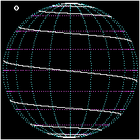 One frame from the animation File:KUGSPI-9 Loxodrome.gif